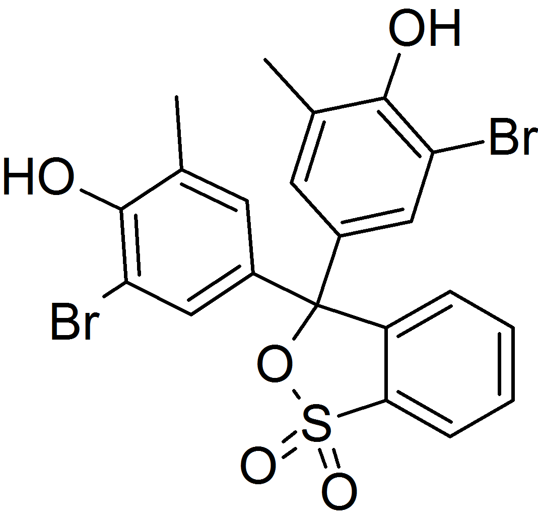 Structure of Bromocresol purple